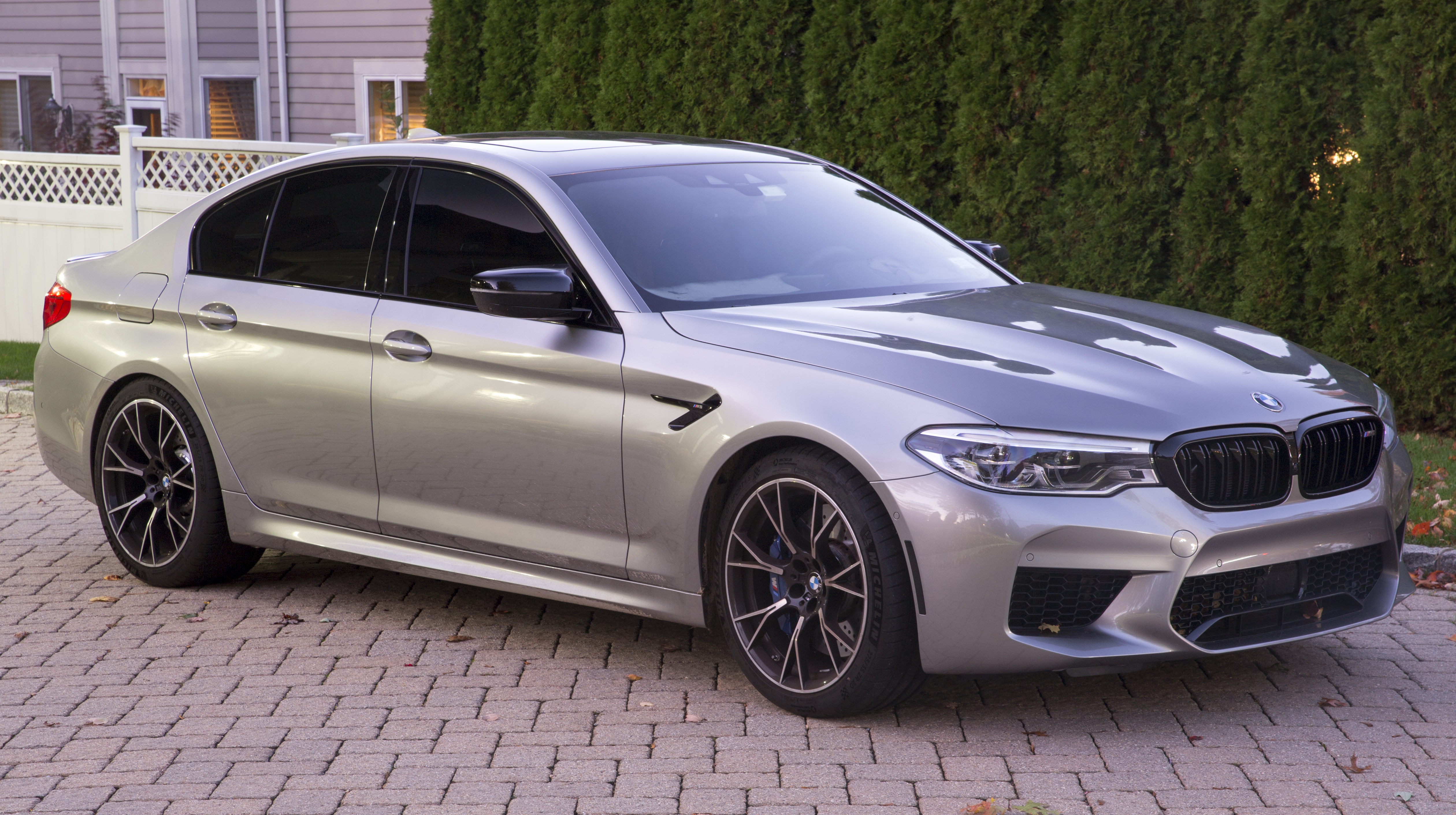 A 2019 BMW M5 Competition.